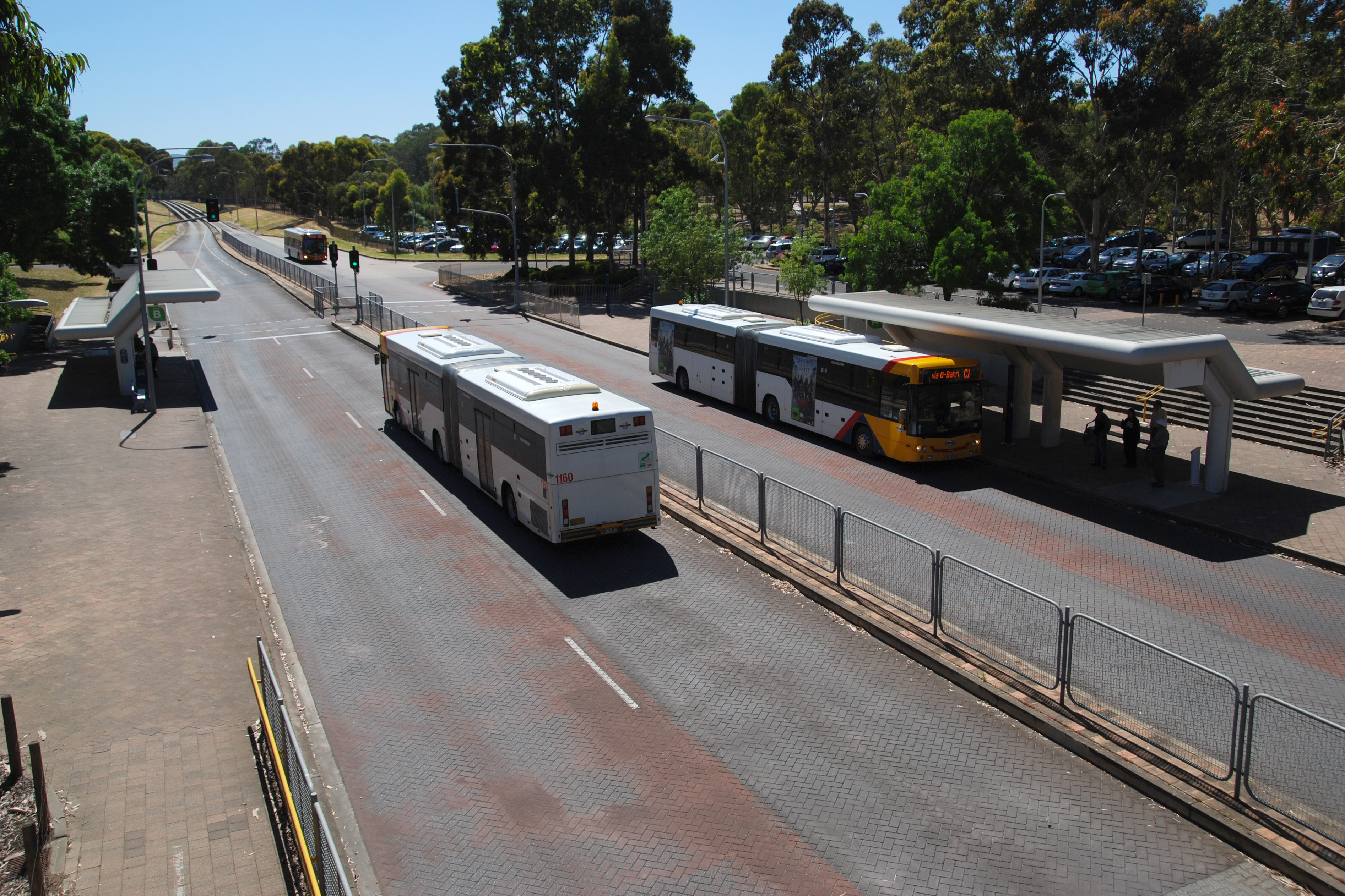 Looking outbound over Klemzig Interchange on the O-Bahn Busway.